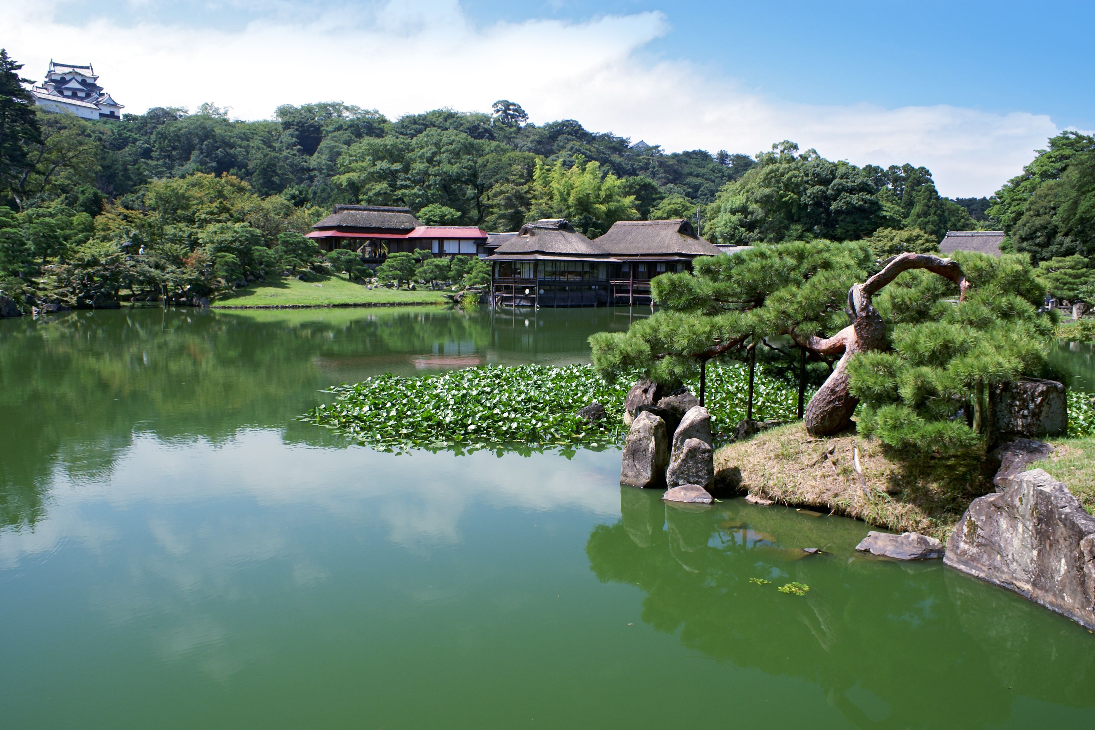 Genkyuen garden in Hikone, Shiga prefecture, Japan